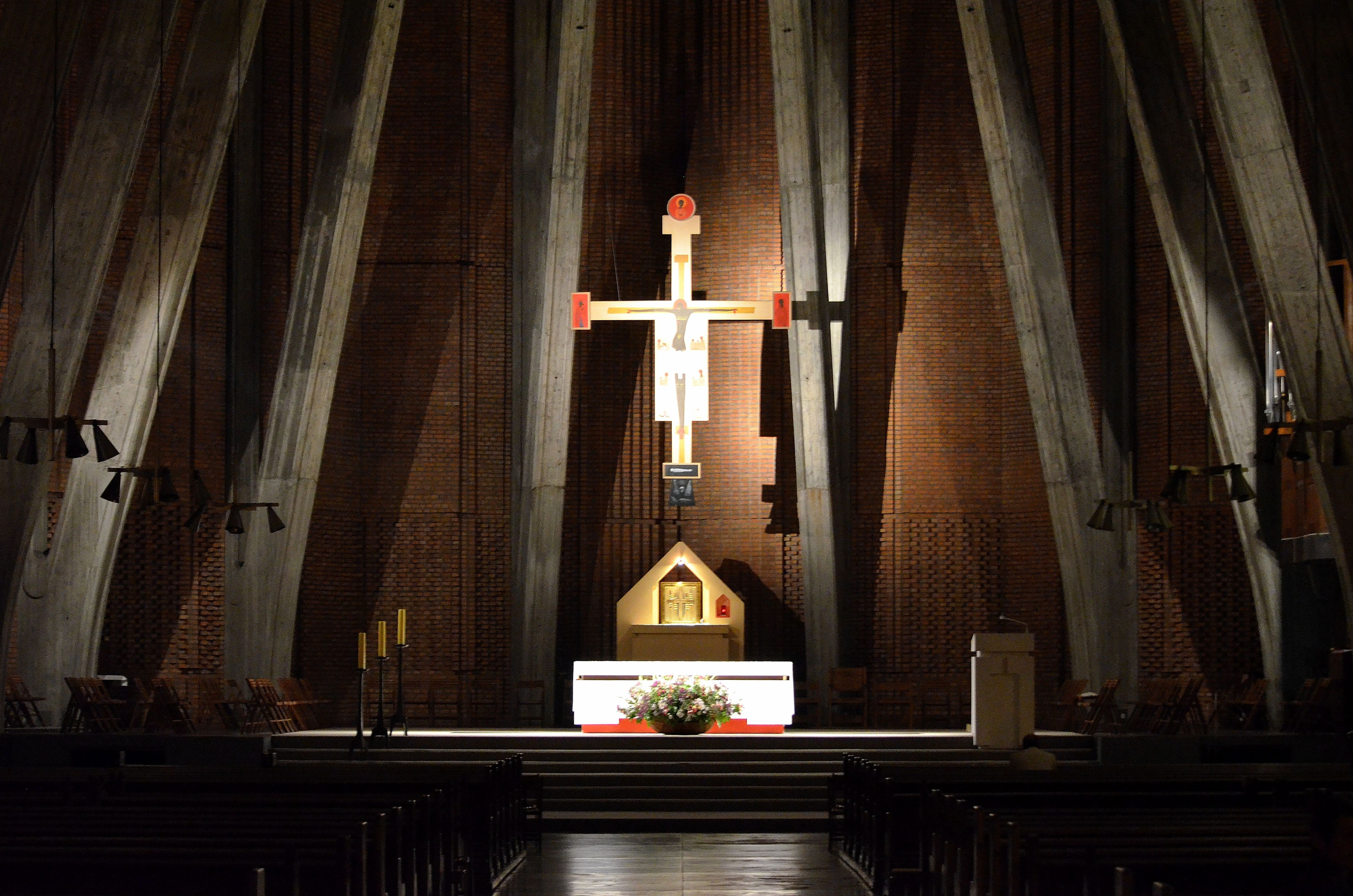 Interior of Saint Dominic church in Wasaw with a crucifix by Jerzy Nowosielski